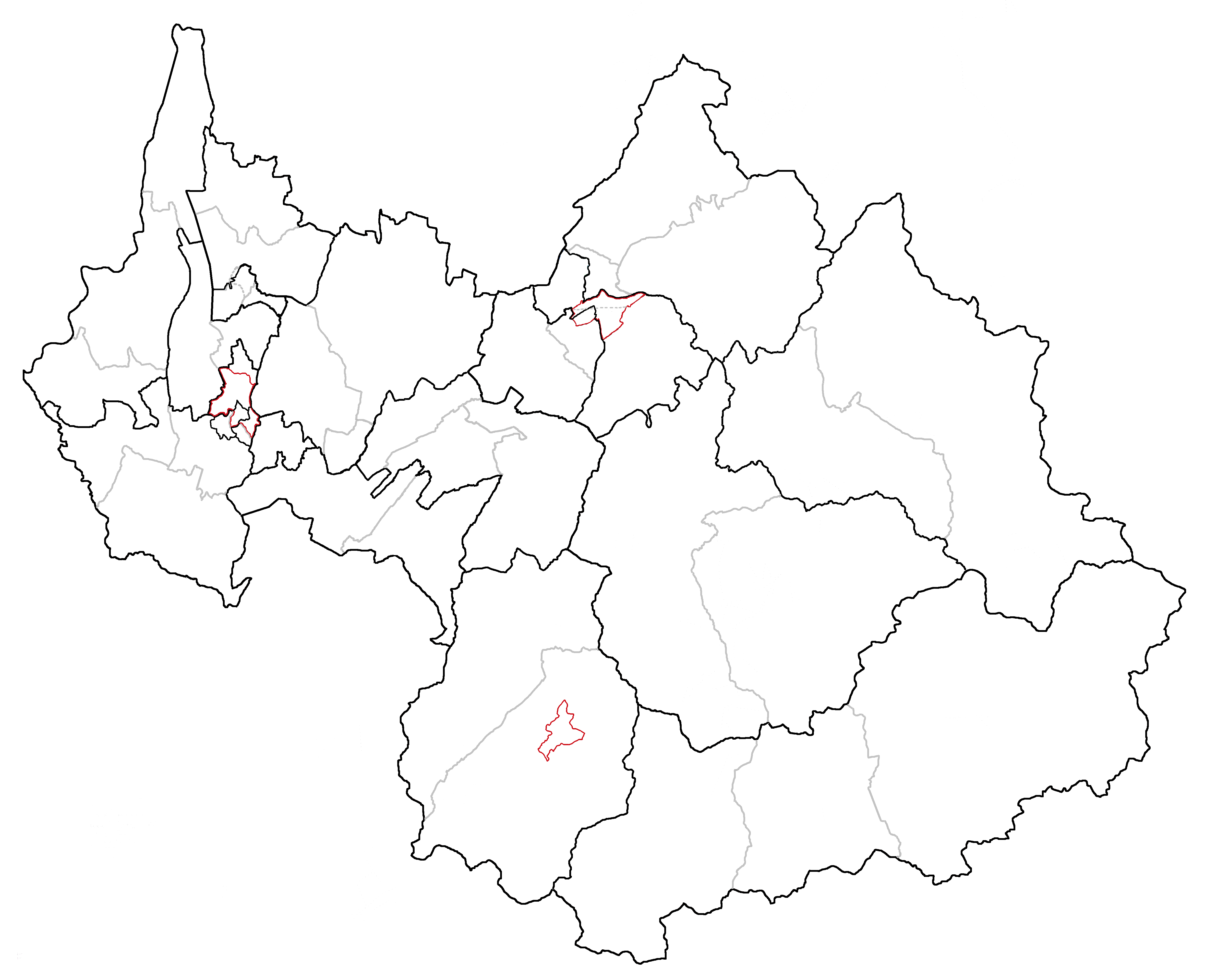 Map of the 19 new electoral 'cantons' of the French department Savoie, with in grey : limits of the previous 37 cantons.